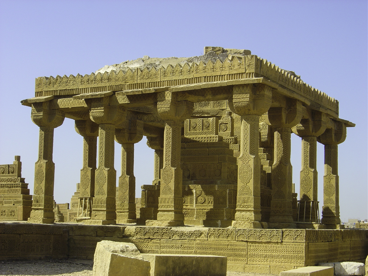 Chaukhandi Tombs date back to one of the earliest civilizations that lived in this part of the world and were adept in the stone carving techniques. This is a photo of a monument in Pakistan identified as the SD-32